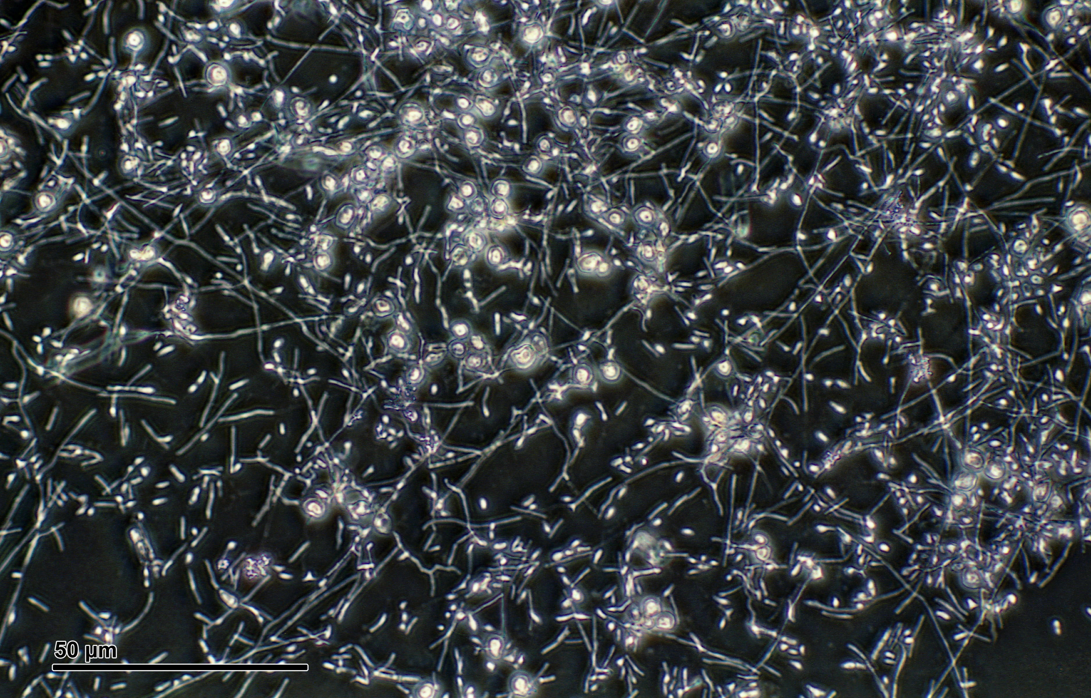 Trichophyton mentagrophytes (Trichophyton mentagrophytes): Cultured. Optical microscopy technique: Negative phase contrast. Magnification: 1200x (for picture width 26 cm ~ A4 format).